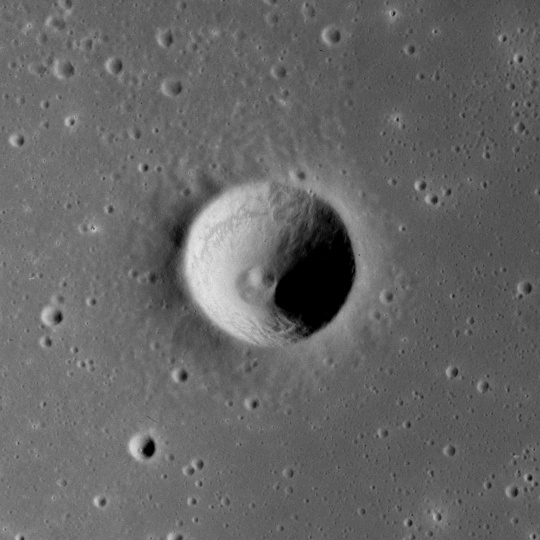 McDonald, Mare Imbrium, on the moon. Camera Altitude is 107 km, Sun Elevation is 29° (from right).